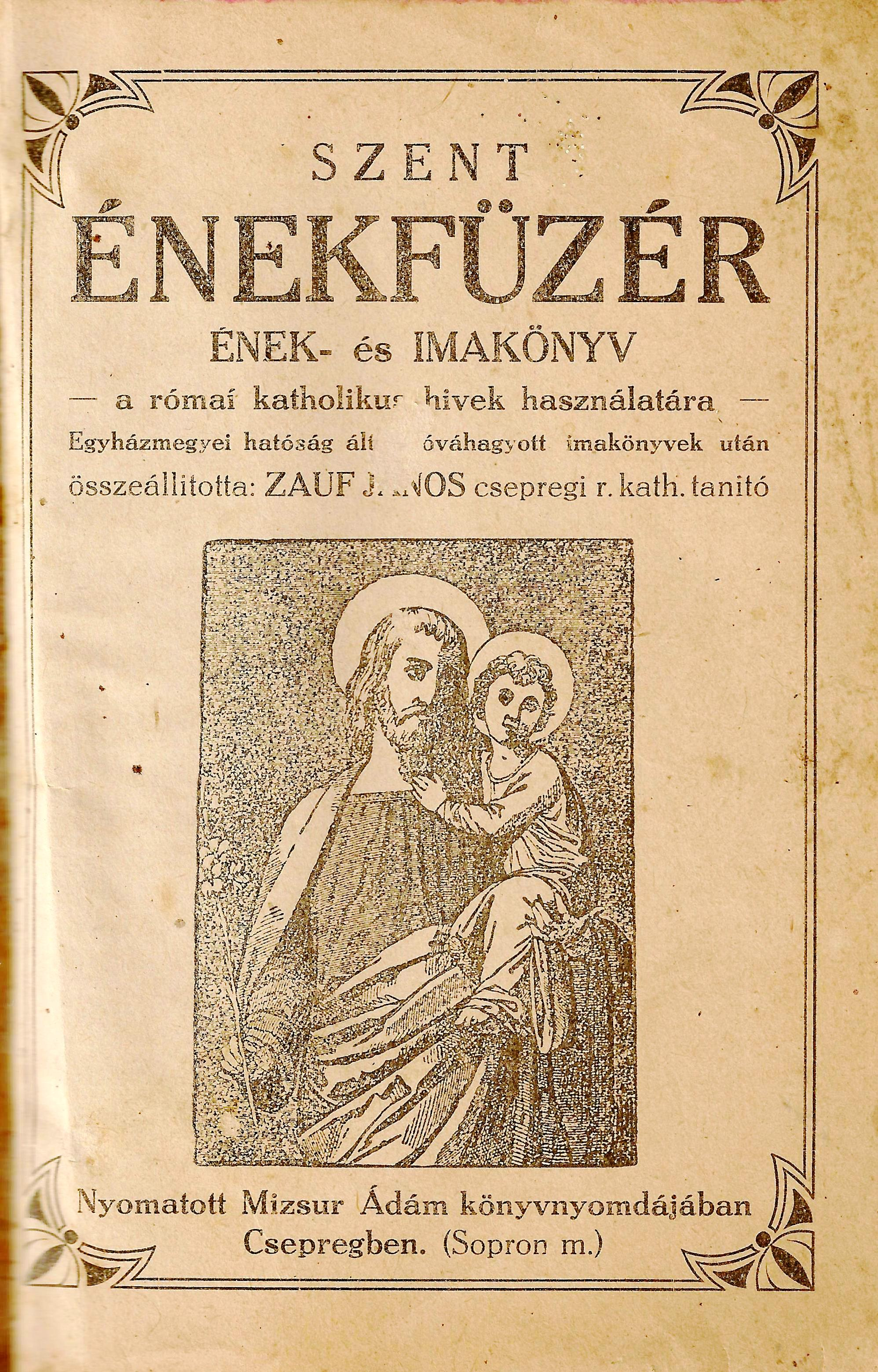 Zauf, János (1870–1940): String of sacred songs (front page of book), prined Mizsur, Ádám, Csepreg (Hungary), without year, approx. 1930.